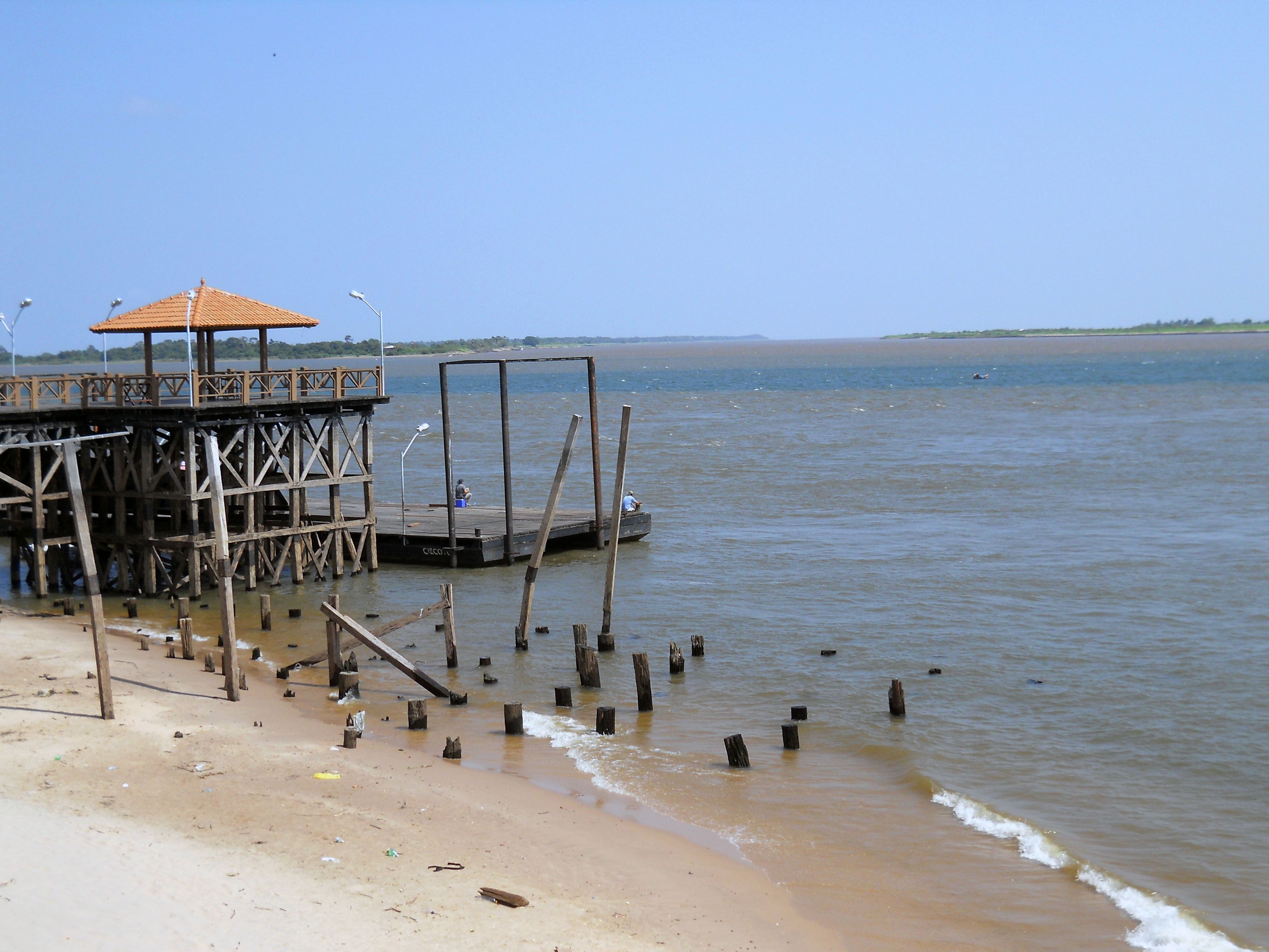 Encounter of Amazon and Tapajos rivers, Santarem